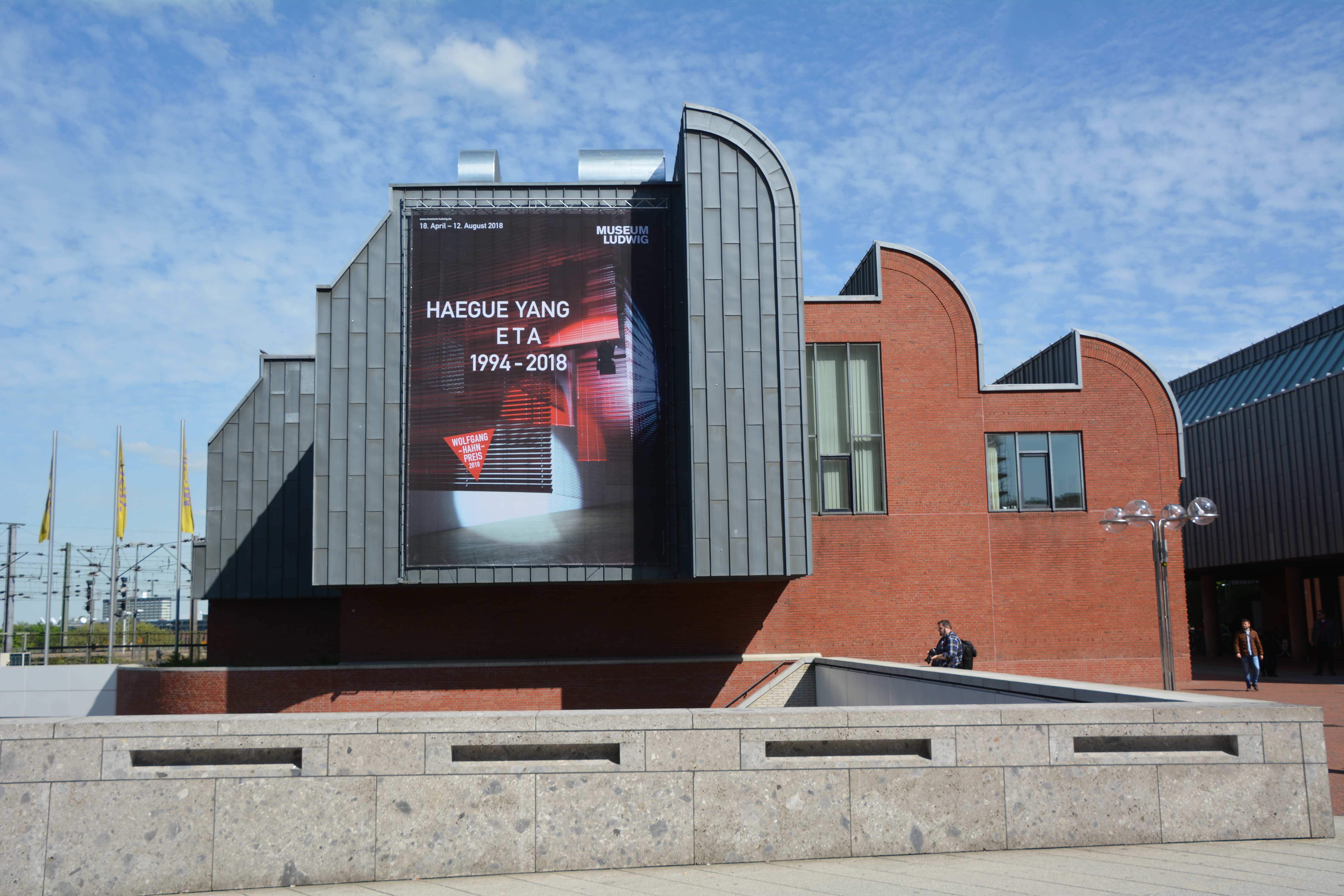 Poster for Hague Yang exposition, Museum Ludwig